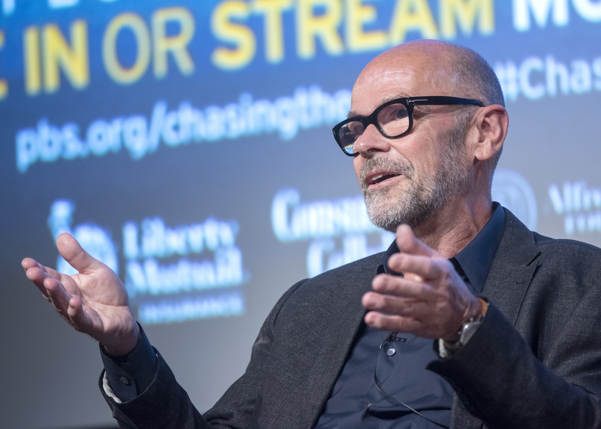 On May 1, 2019, Friends of the LBJ Library viewed a sneak preview of 'Chasing the Moon', a new six-hour PBS documentary series from AMERICAN EXPERIENCE. The film documents the space race from its earliest beginnings to the monumental achievement of the first lunar landing in 1969 and beyond. After the screening, a discussion followed with filmmaker Robert Stone, Poppy Northcutt, who at 25 gained worldwide attention as the first woman to serve in the all-male bastion of NASA's Mission Control, and Roger Launius, former chief historian of NASA.